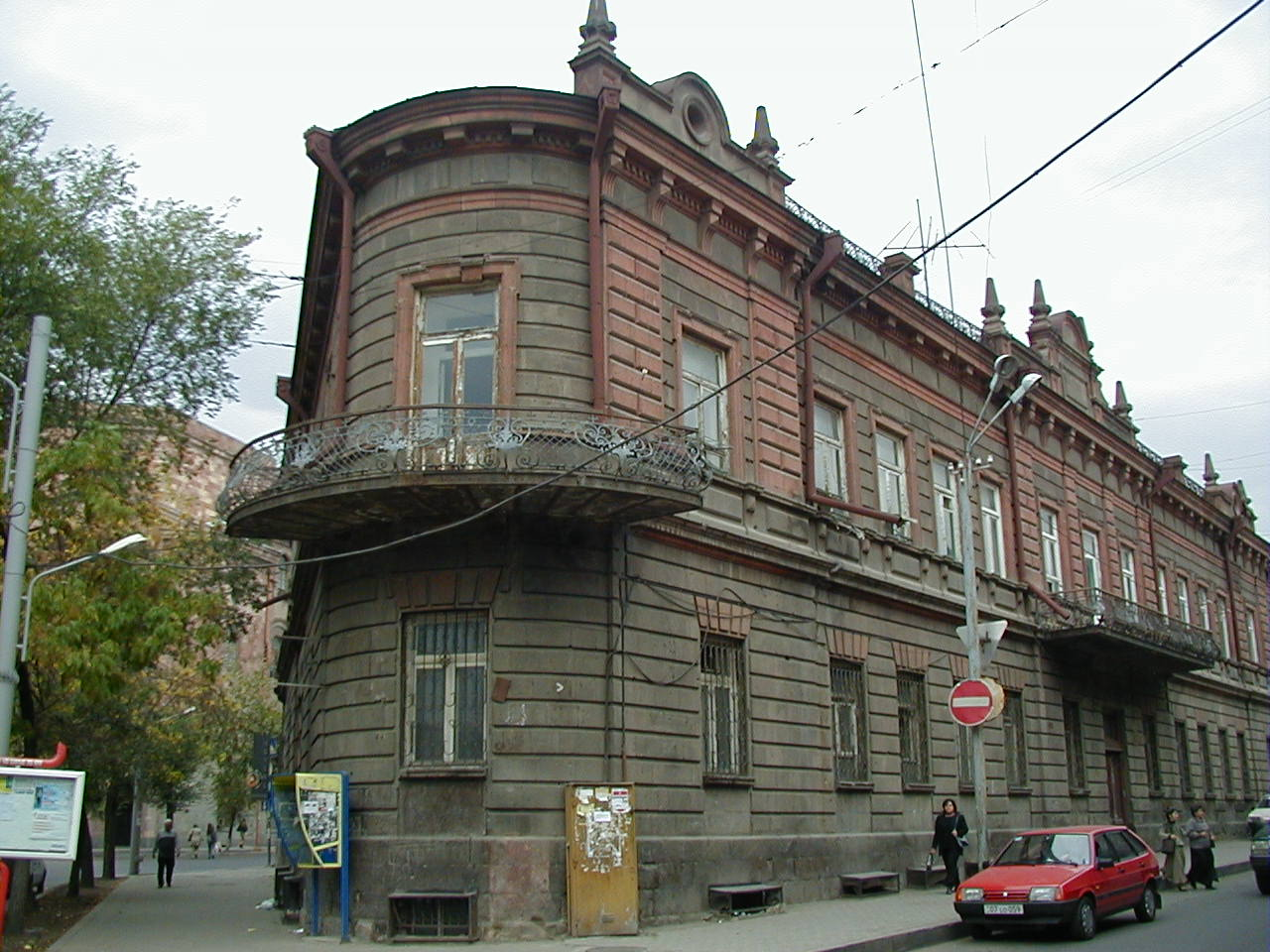 The Government house of the Democratic Republic of Armenia in 1918